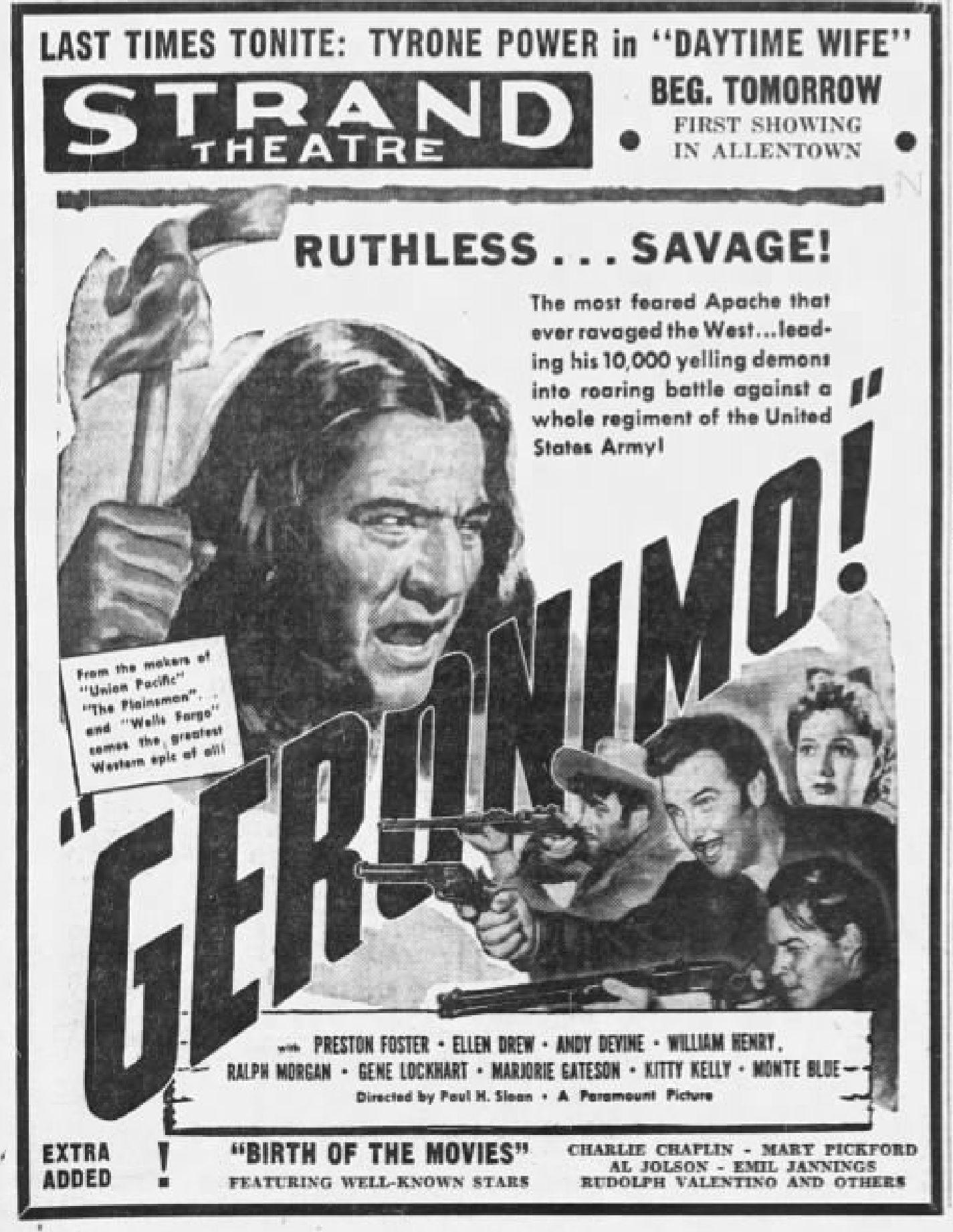 Strand Theater advertisement for the American western film Geronimo (1939) - 25 Jan. 1940 Morning Call, Allentown PA